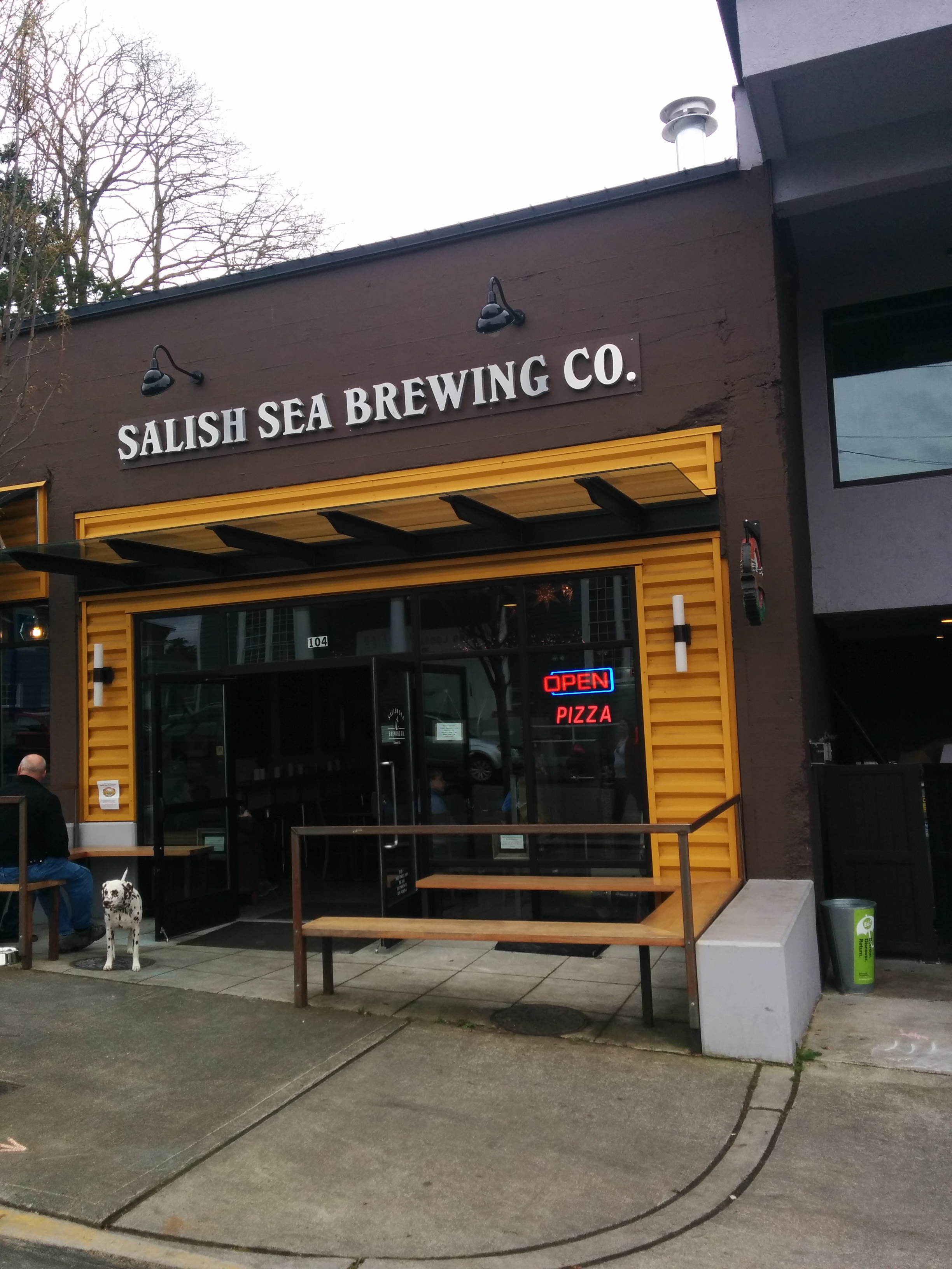 Exterior of Salish Sea Brewing in Edmonds, Washington